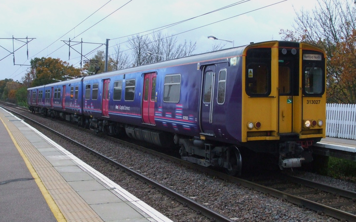 Class 313 unit 313027 calls at Grange Park station with a northbound service